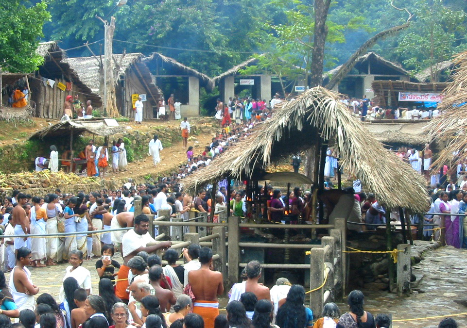 Lord Shiva Temple at Kottiyoor in Kannur district, Kerala